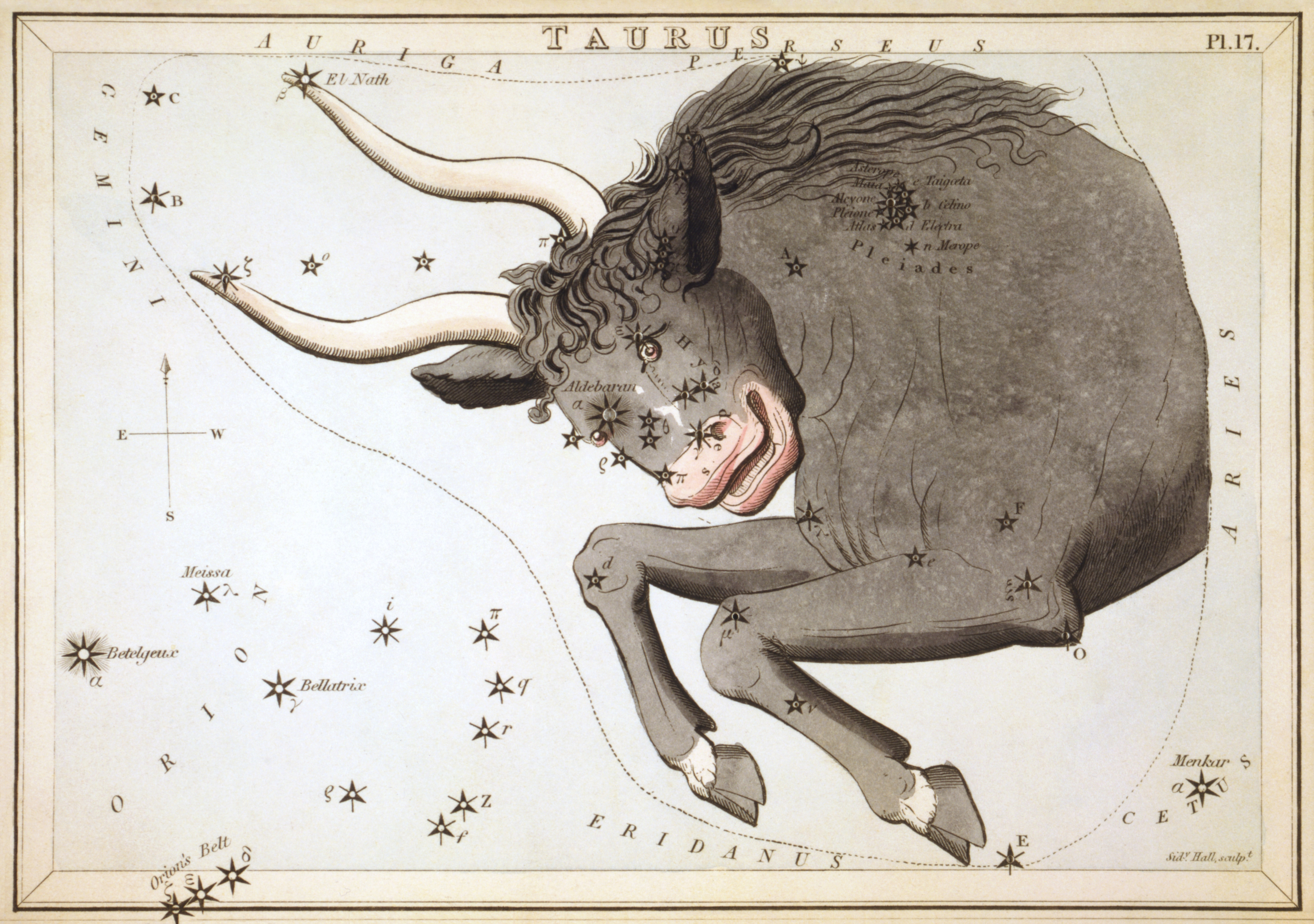 "Taurus", plate 17 in Urania's Mirror, a set of celestial cards accompanied by A familiar treatise on astronomy ... by Jehoshaphat Aspin. London. Astronomical chart, 1 print on layered paper board : etching, hand-colored.